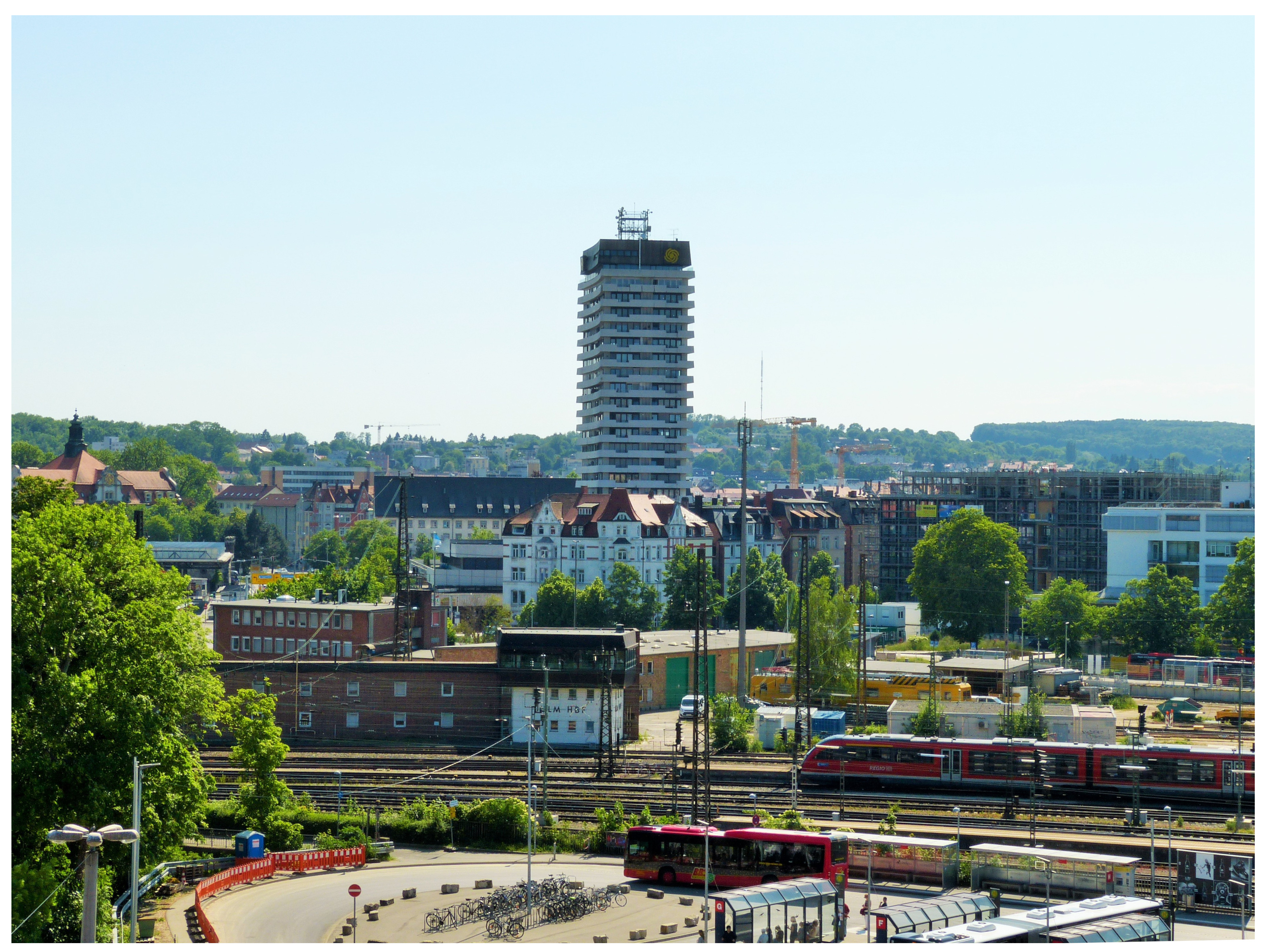 Universum Center